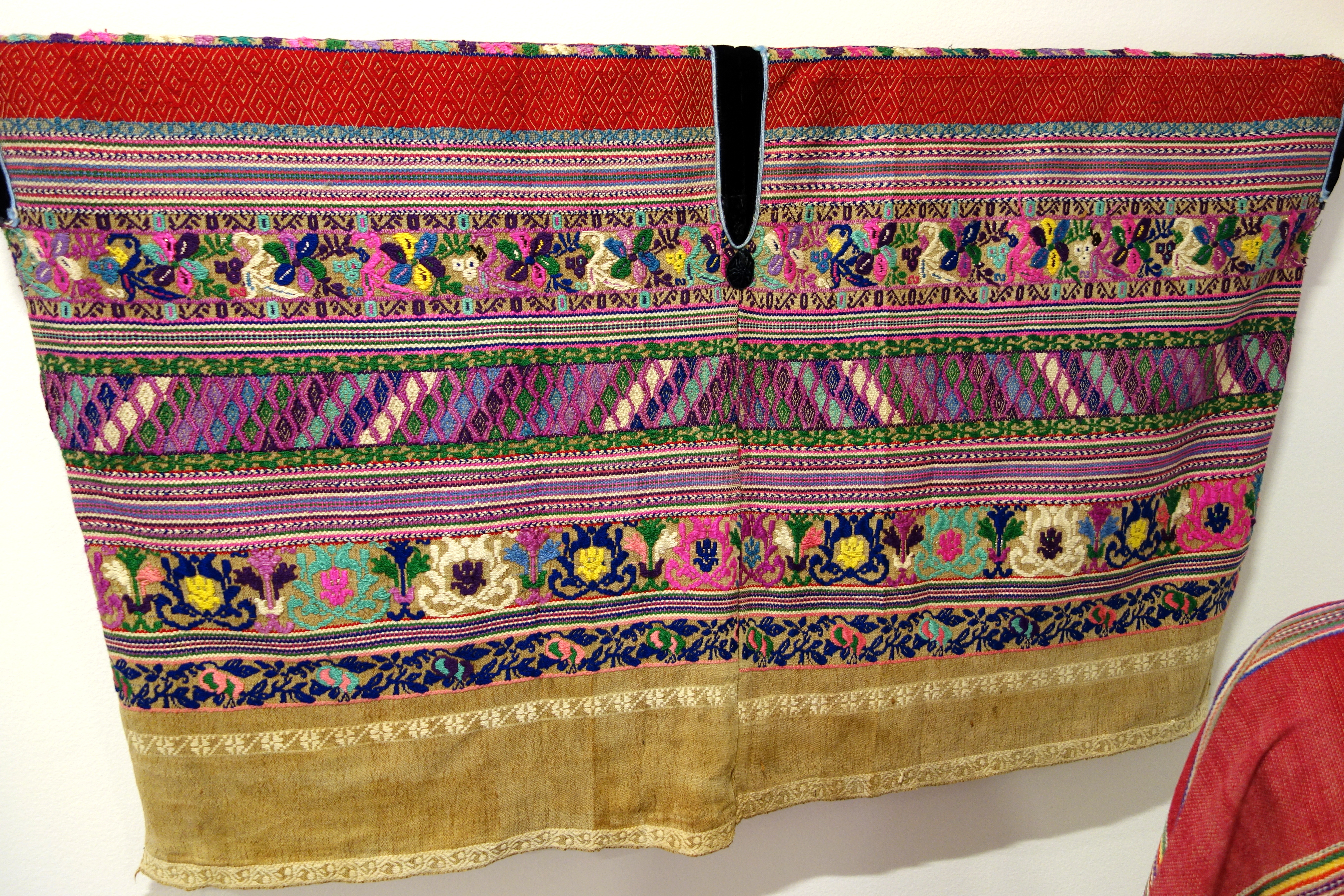 Exhibit in the Textile Museum of Canada, 55 Centre Avenue, Toronto, Ontario, Canada.